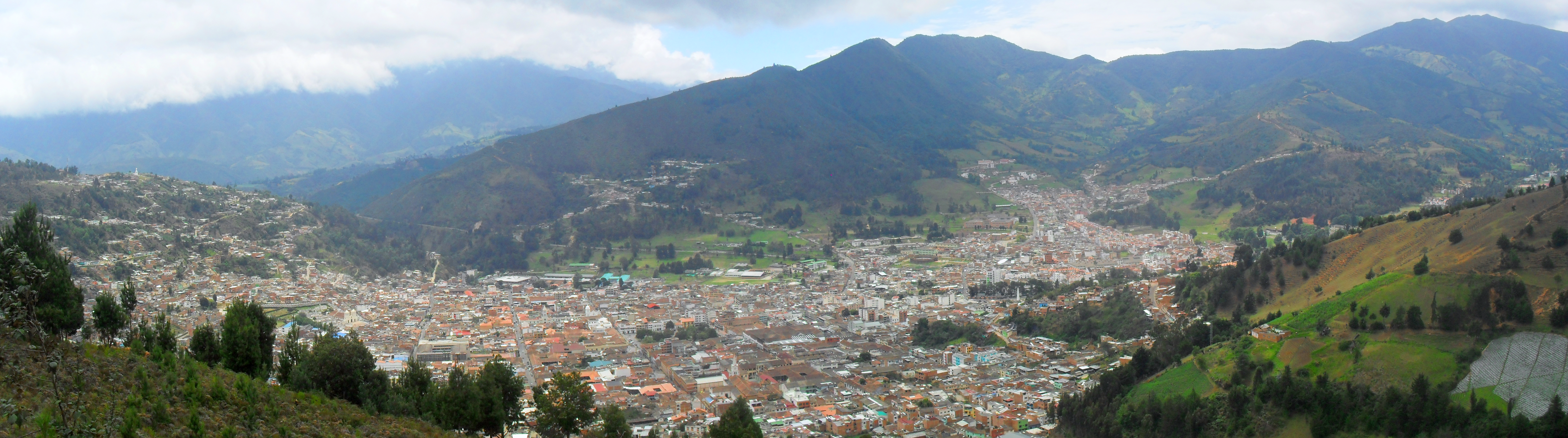 Valle del Espíritu Santo, Pamplona - Colombia